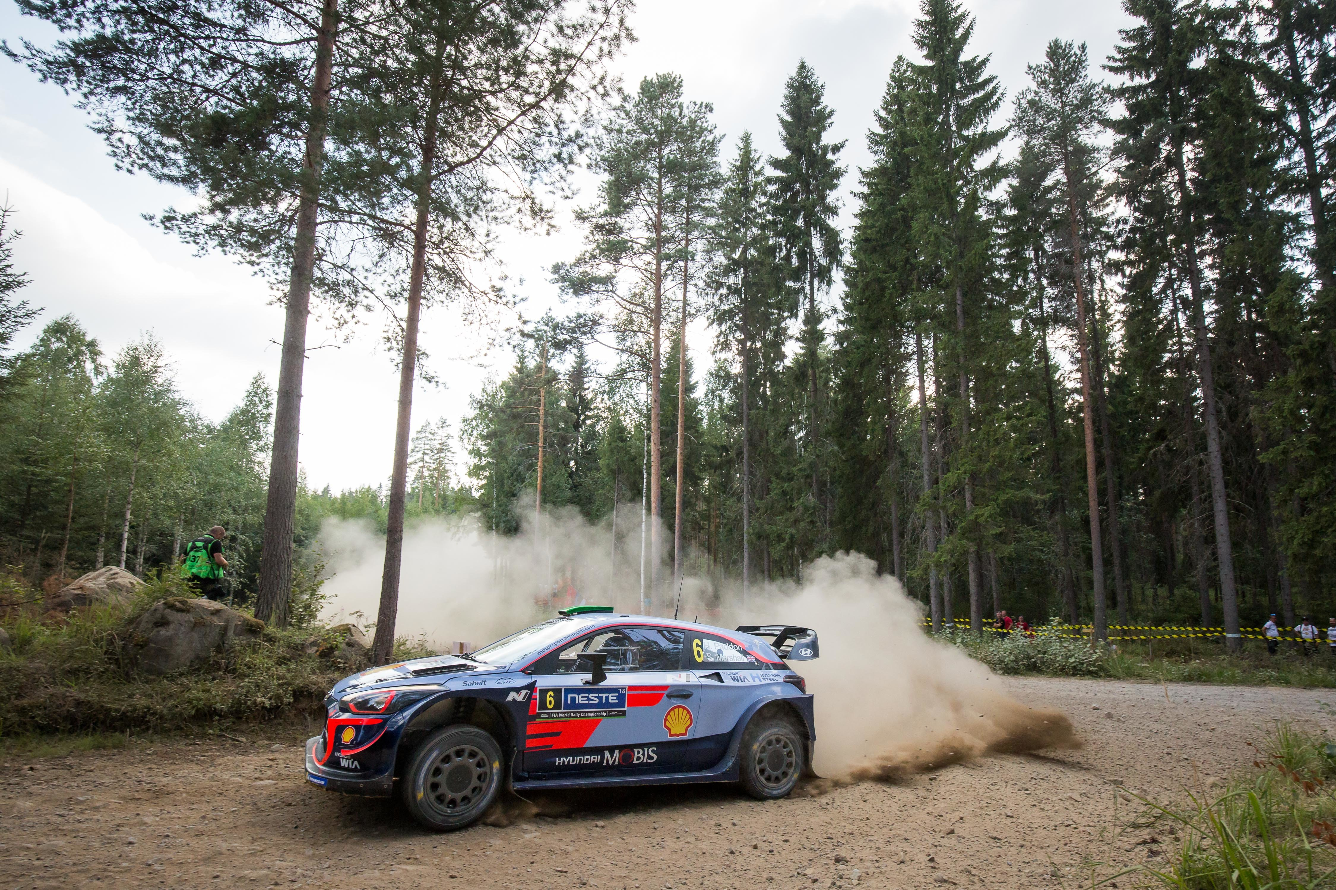 2018 FIA World Rally Championship Round 08 Rally Finland 26-29 July 2018 Hayden Paddon, Seb Marshall, Hyundai i20 Coupe WRC Photographer: Fabien Dufour Worldwide copyright: Hyundai Motorsport GmbH